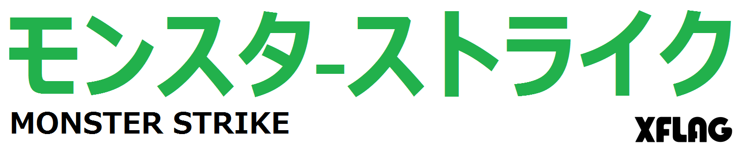 Logo of Monster Strike (モンスト, 怪物彈珠), a mobile game developed by mixi for the iOS and Android platforms.